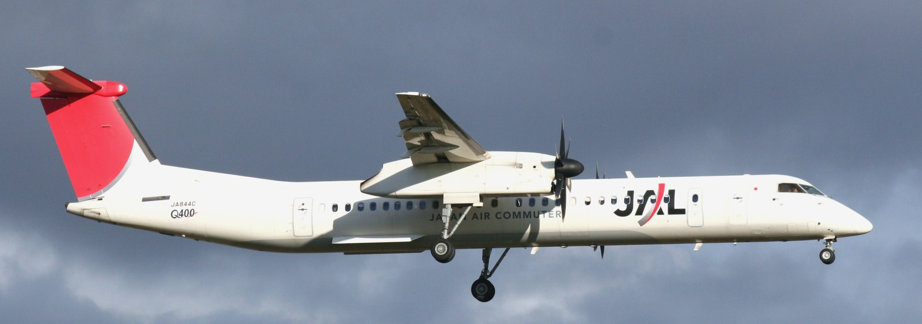 JAL JA844C